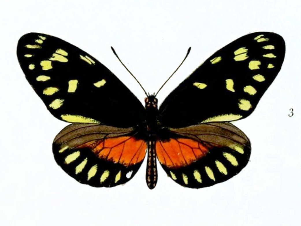 Butterfly Neruda godmani taken from Proceedings of the general meetings for scientific business of the Zoological Society of London (1882).